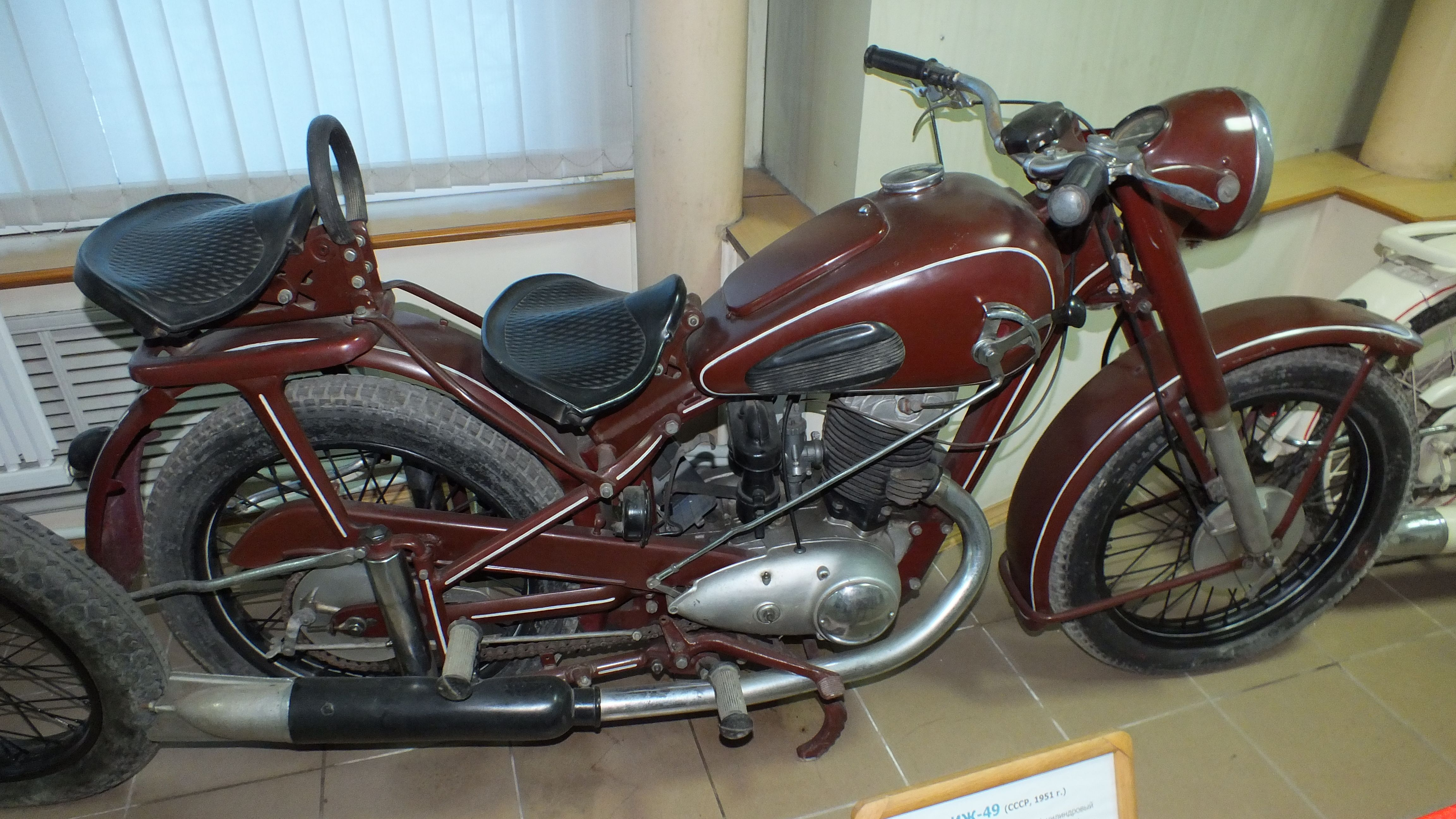 IZH motorcycles